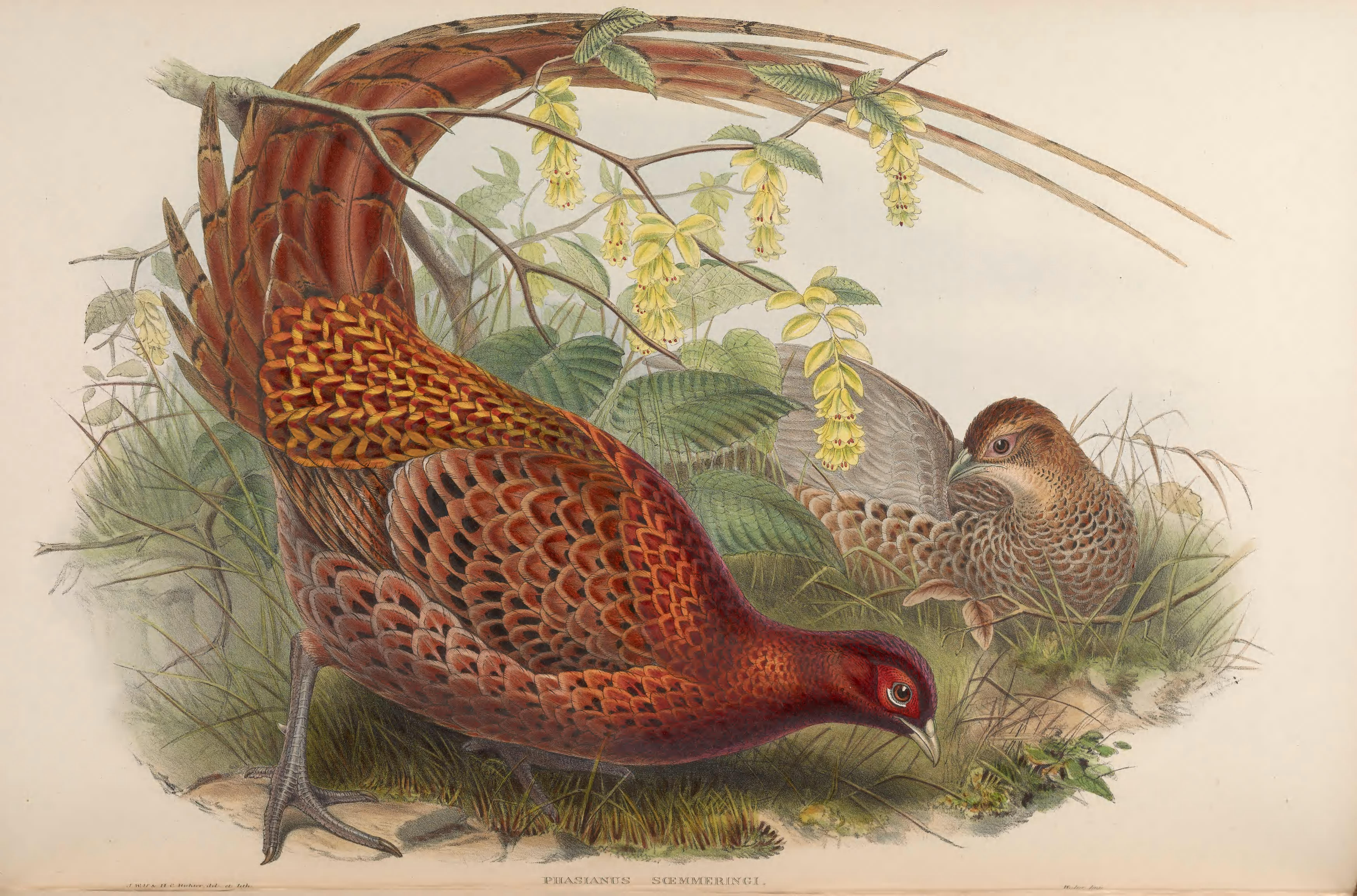 Phasianus soemmeringii = Syrmaticus soemmerringii[1]